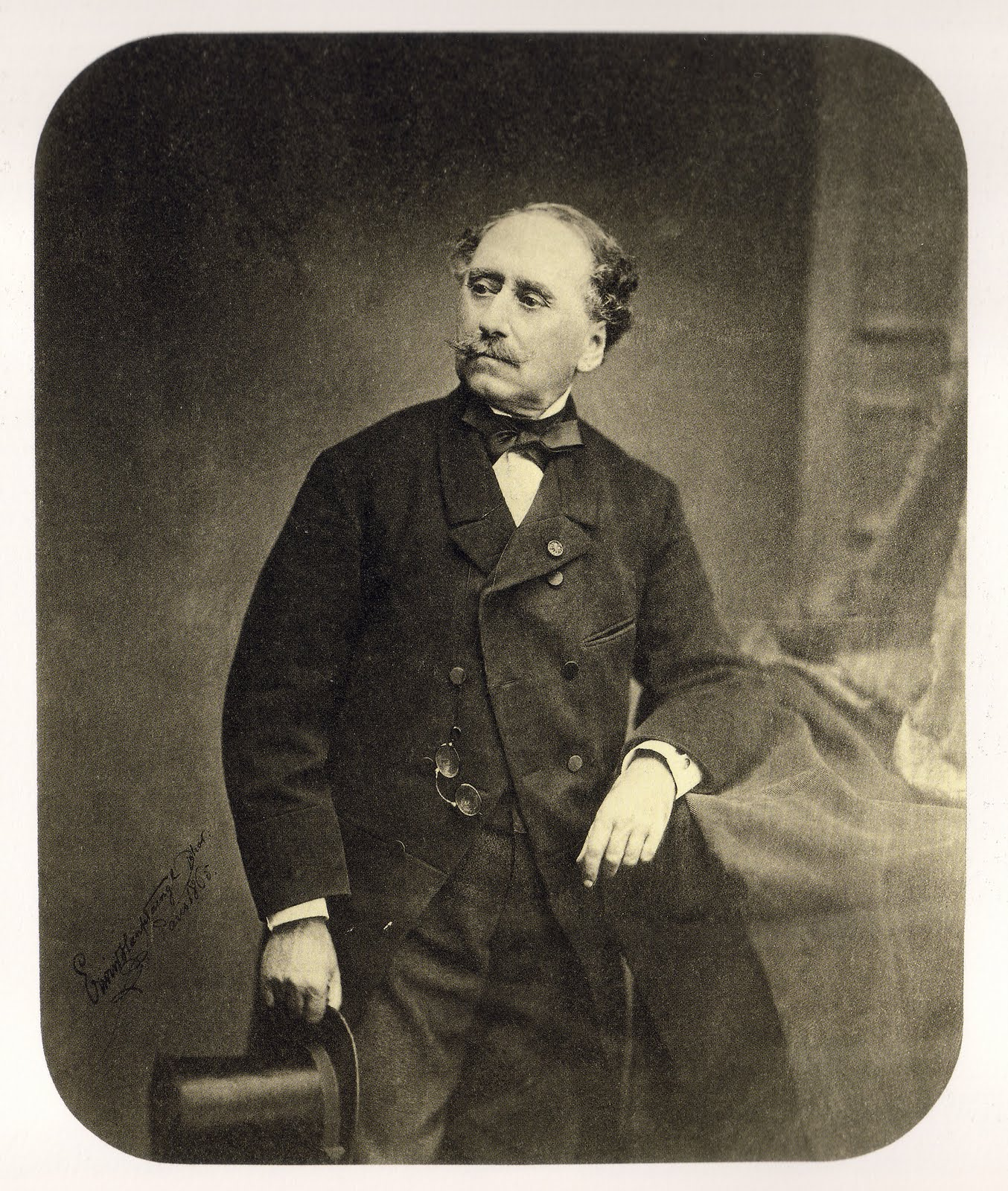 Greek general and politician Dimitrios Kallergis (1803-1867), photographed by André-Adolphe-Eugène Disdéri (1819-1890) in Paris in 1865.